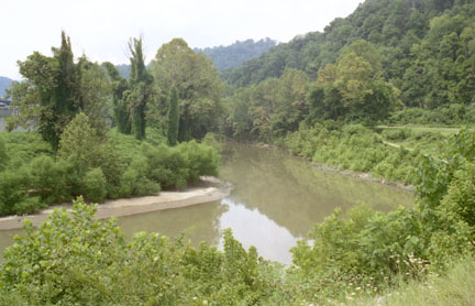 The Tug Fork at Williamson, West Virginia. Pike County, Kentucky is at left.